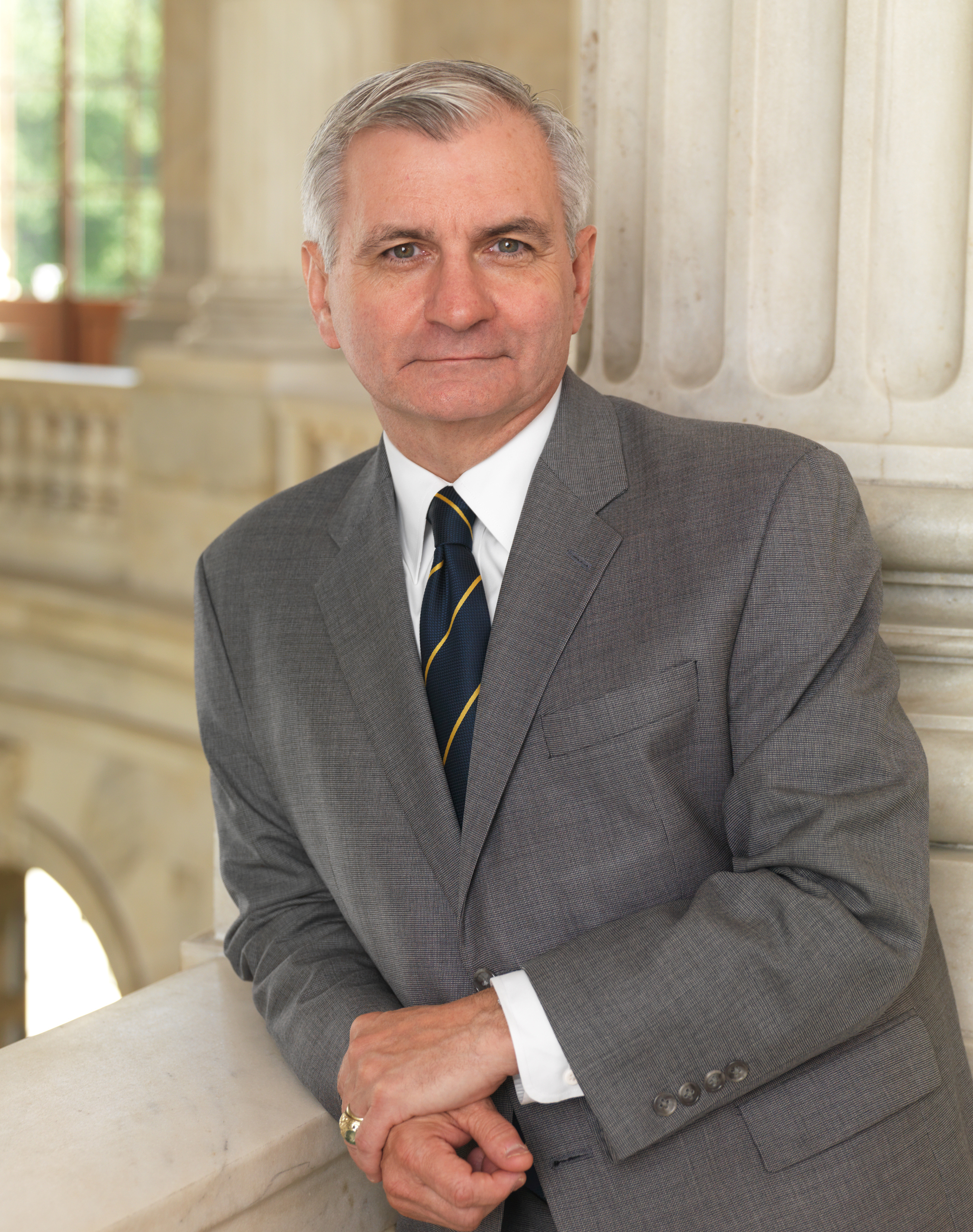 Official portrait of Senator Jack Reed (D-RI).